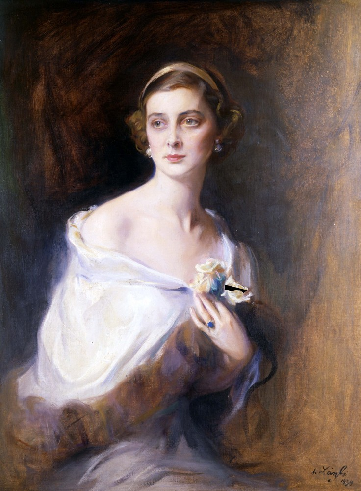 Portrait of Princess Marina, Duchess of Kent (1906-1968), painted in 1934.